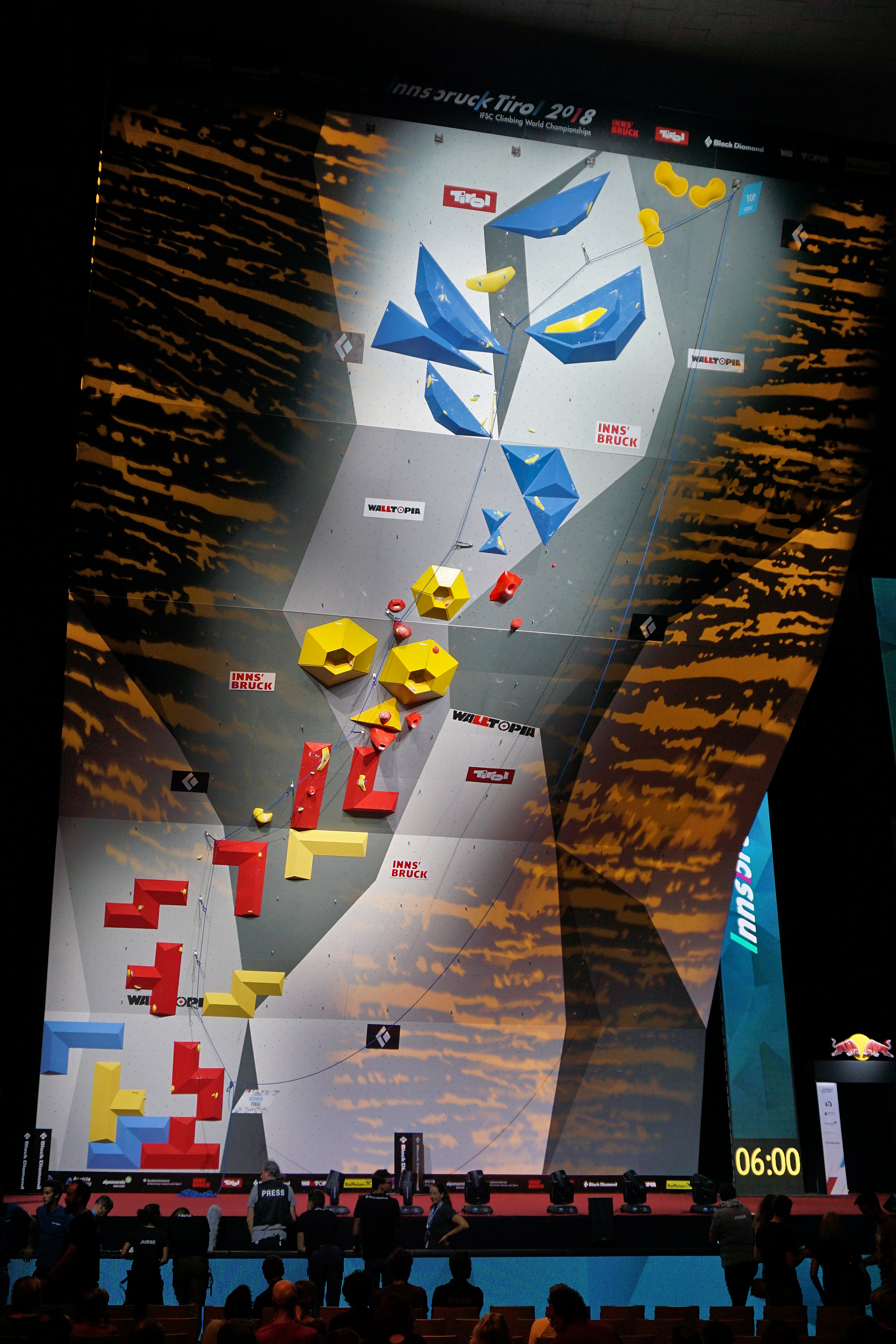 IFSC Climbing World Championships Innsbruck 2018 Final WOMAN lead